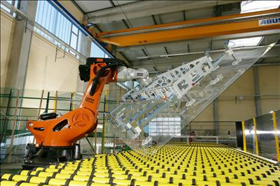 Factory Automation with industrial robots for material handling in flat glass industry, company Grenzebach in Germany, robotics for high payloads